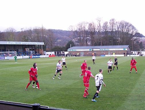 Maidenhead United vs Dover Athletic in December 2010